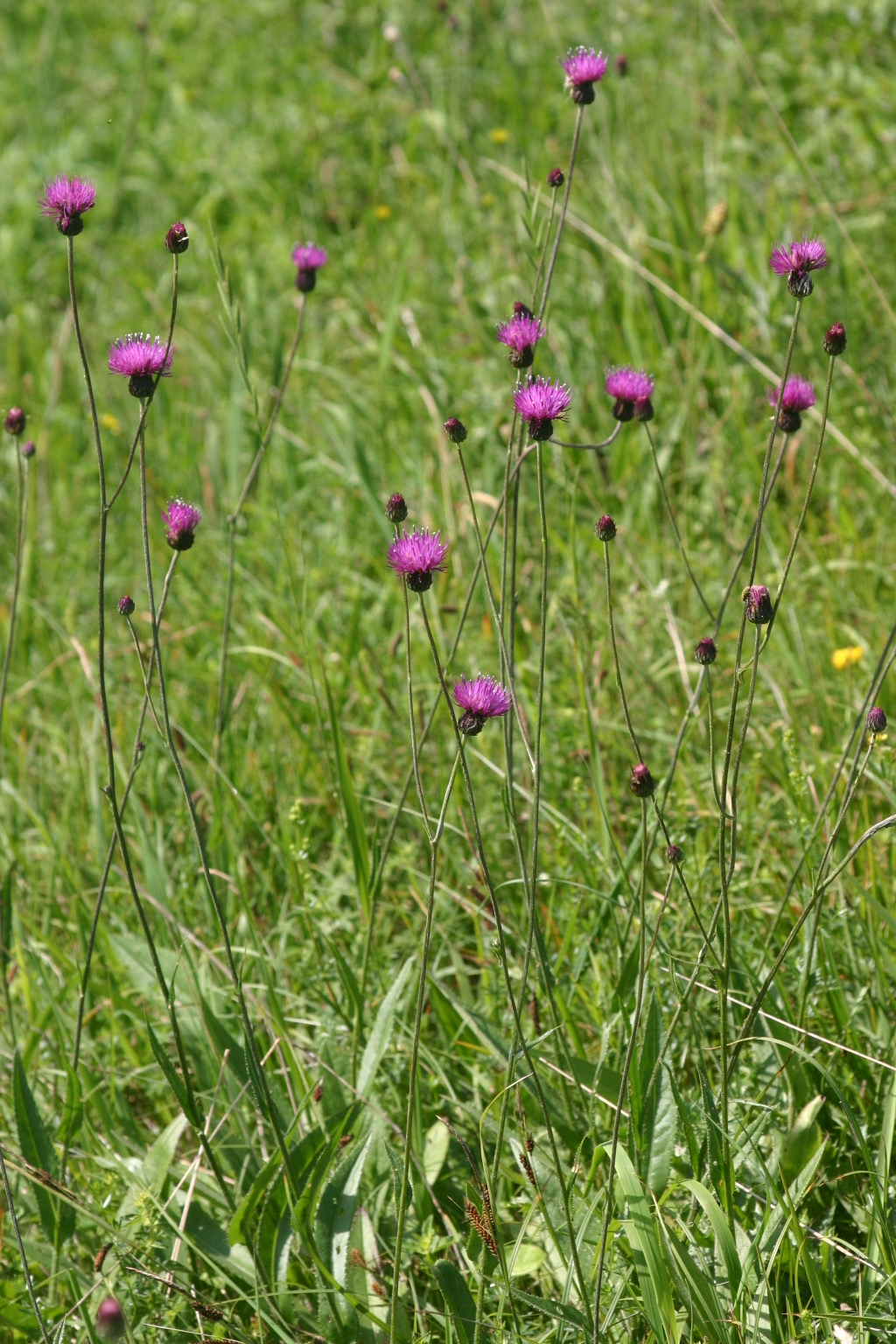 Cirsium pannonicum